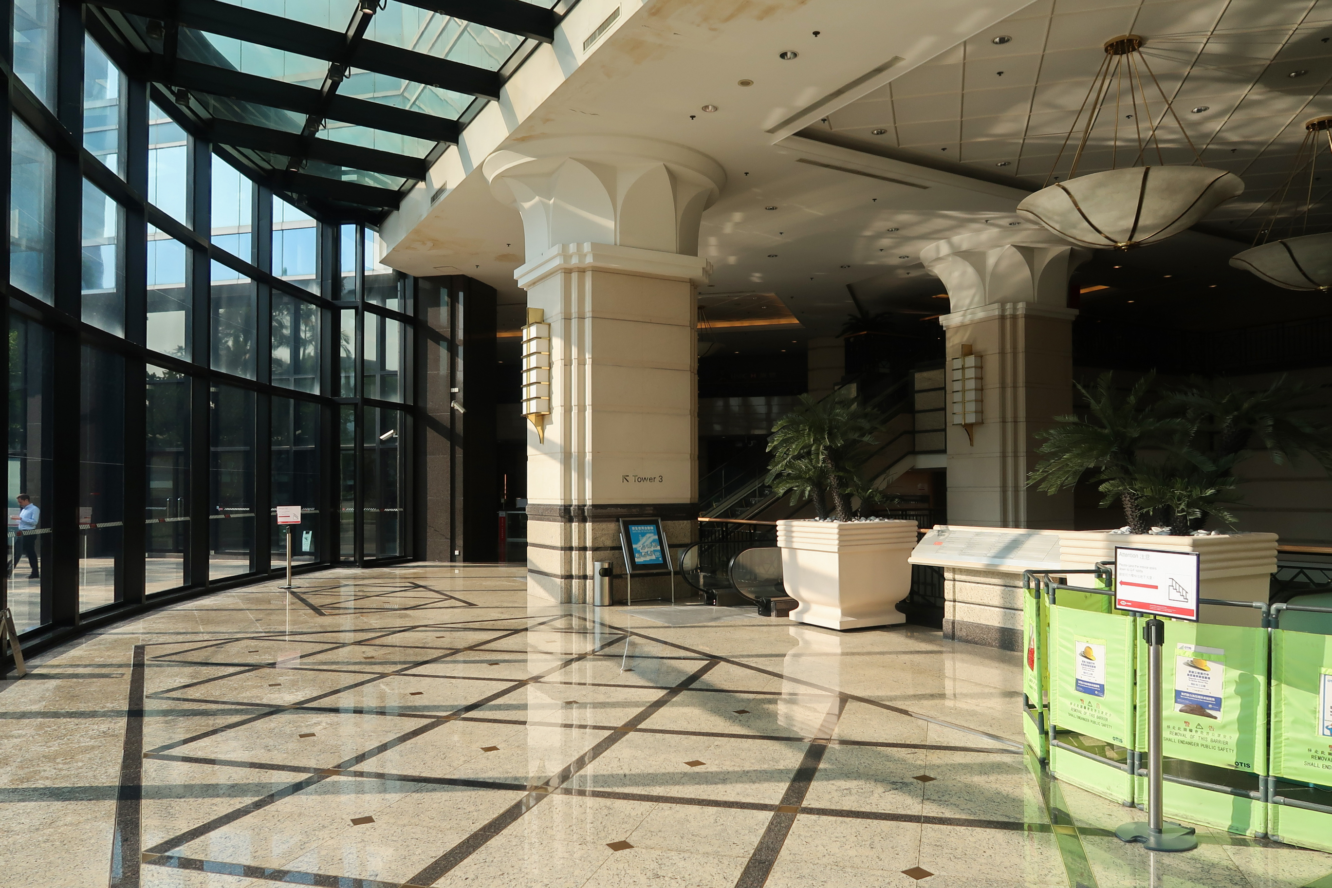 HSBC Centre Tower 2 Lobby